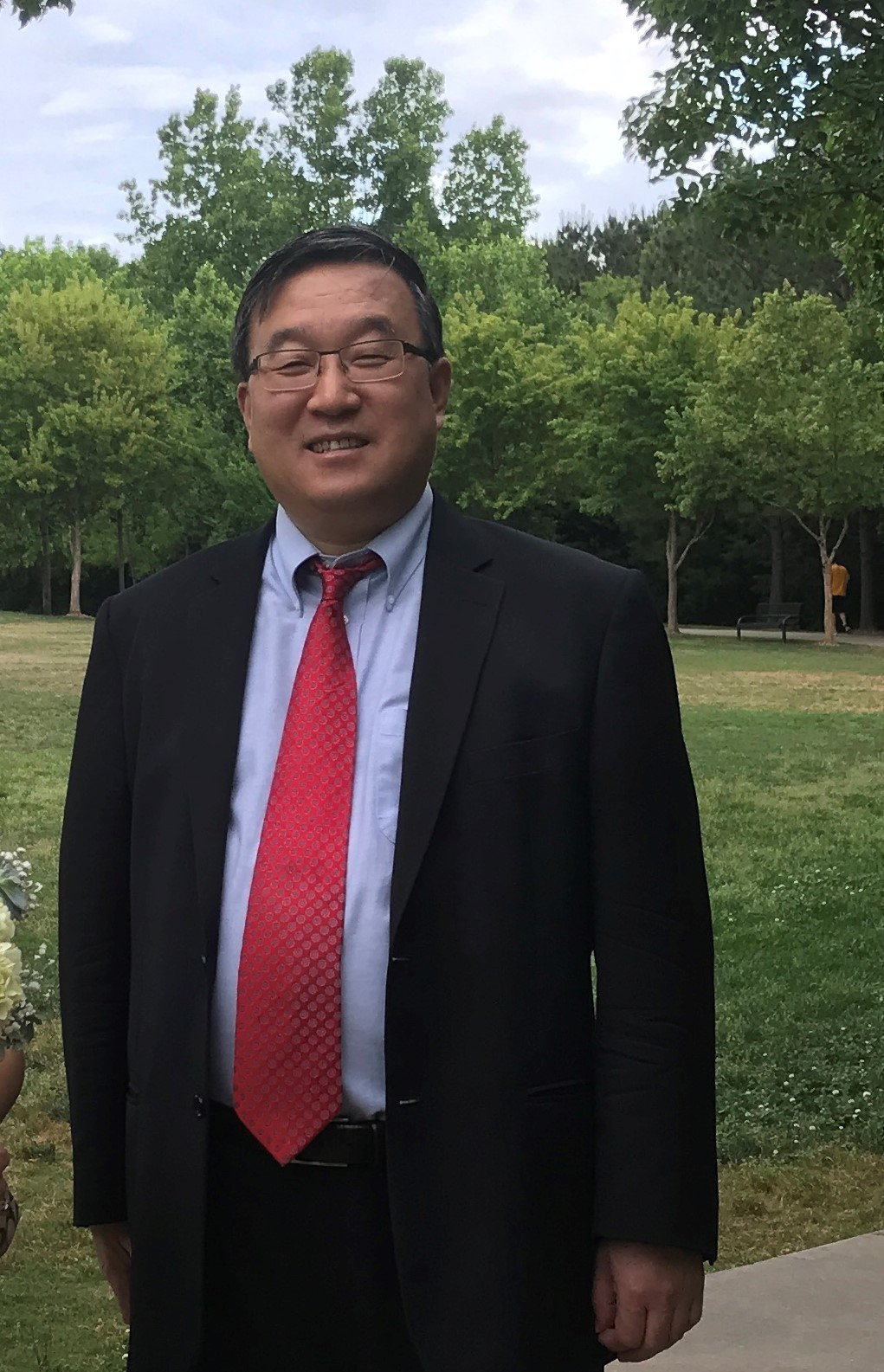 Jan shi in a park